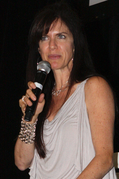 Jennifer Hale, Mass Effect, Star Wars